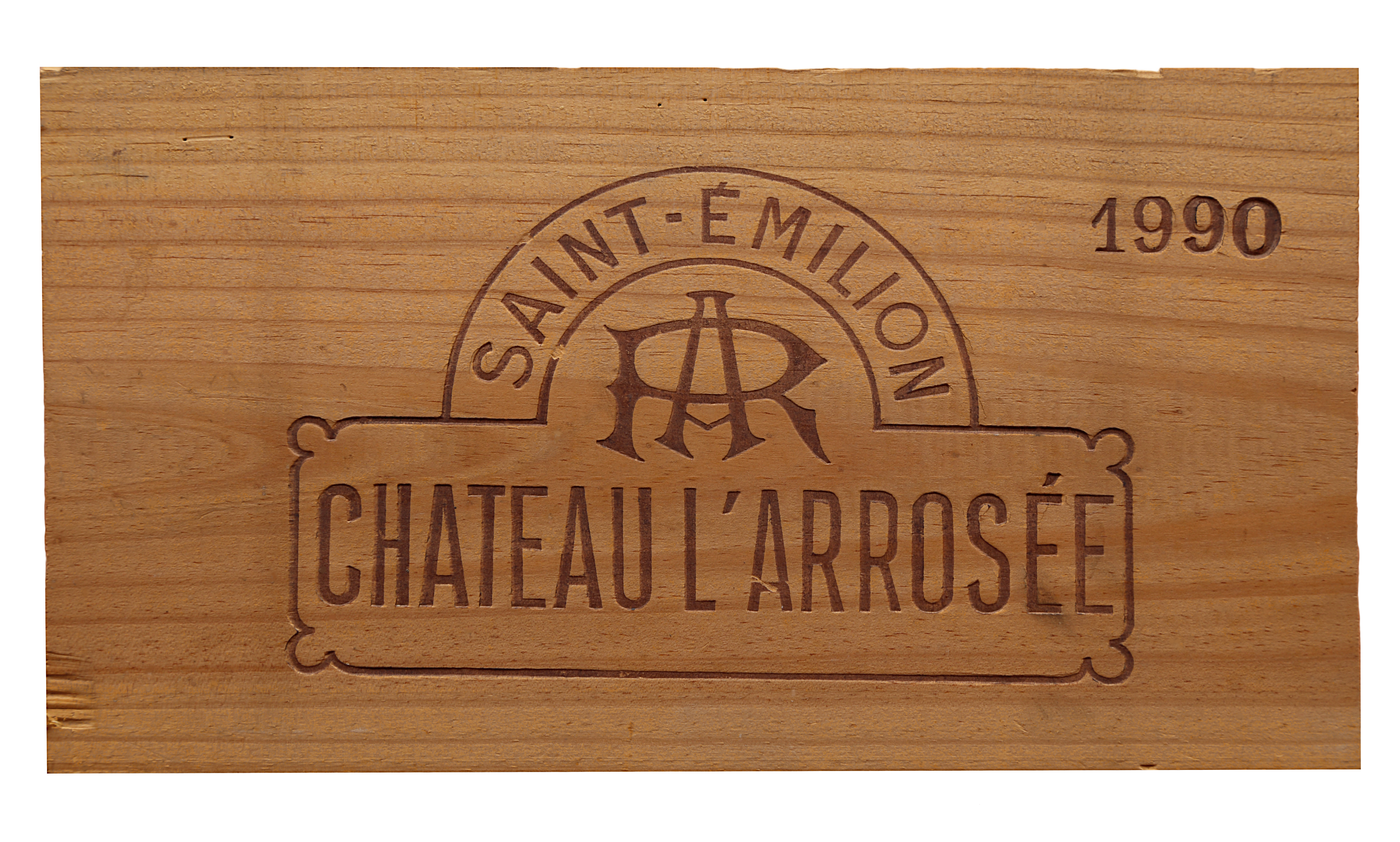 Part of a wooden crate of Château L'Arrosée 1990, picture taken in Belgium.